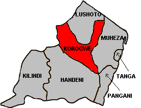 Created by Andrew Coe